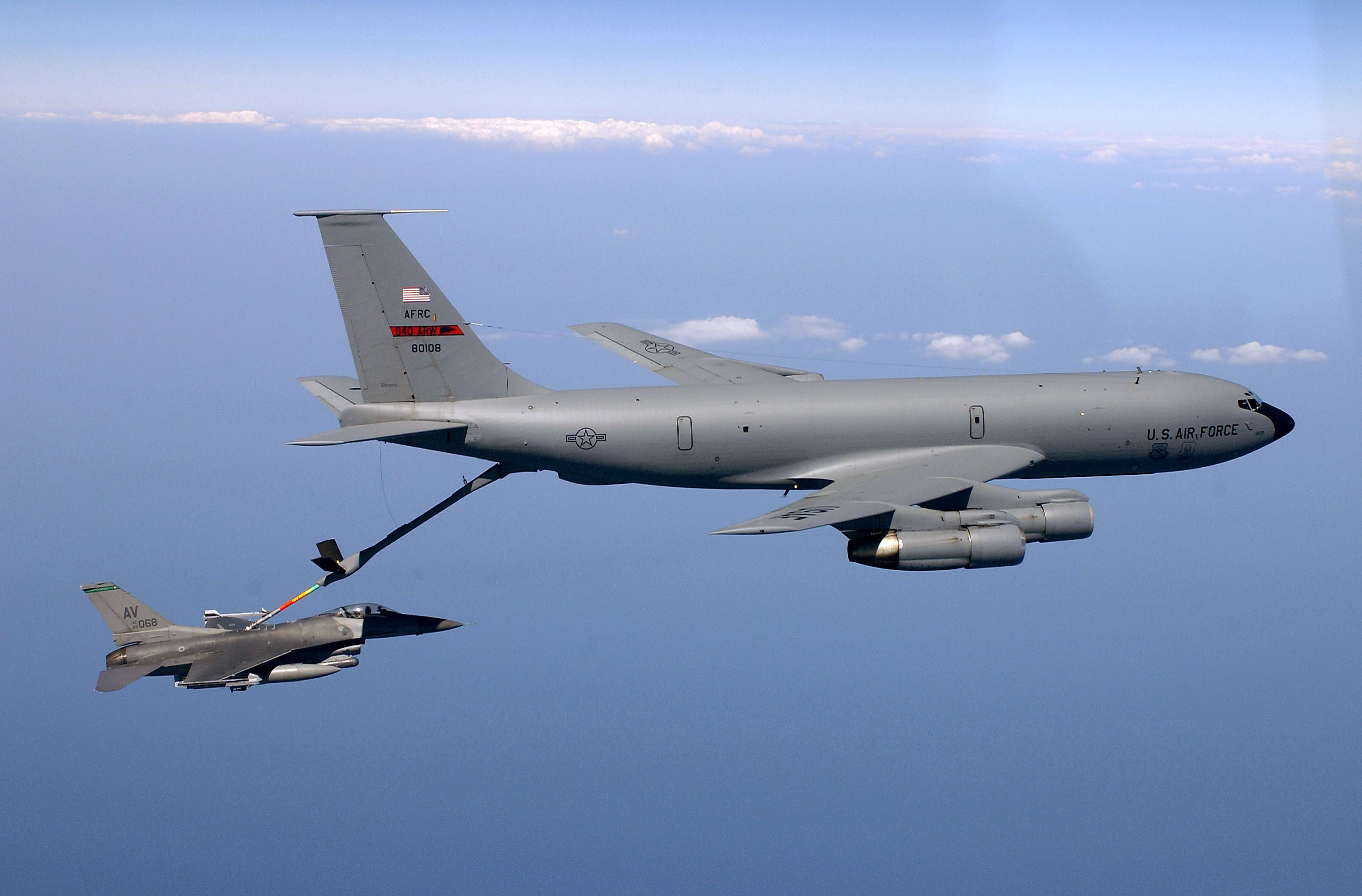 A USAF KC-135E Stratotanker (58-0108, 940th ARW/AFRC) refuels an F-16C Fighting Falcon (89-2068, 555th FS, Aviano AB, Italy/USAFE) in mid-air.